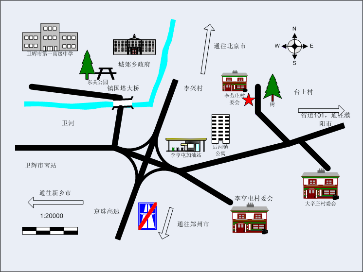 the location of village lilaozhuang